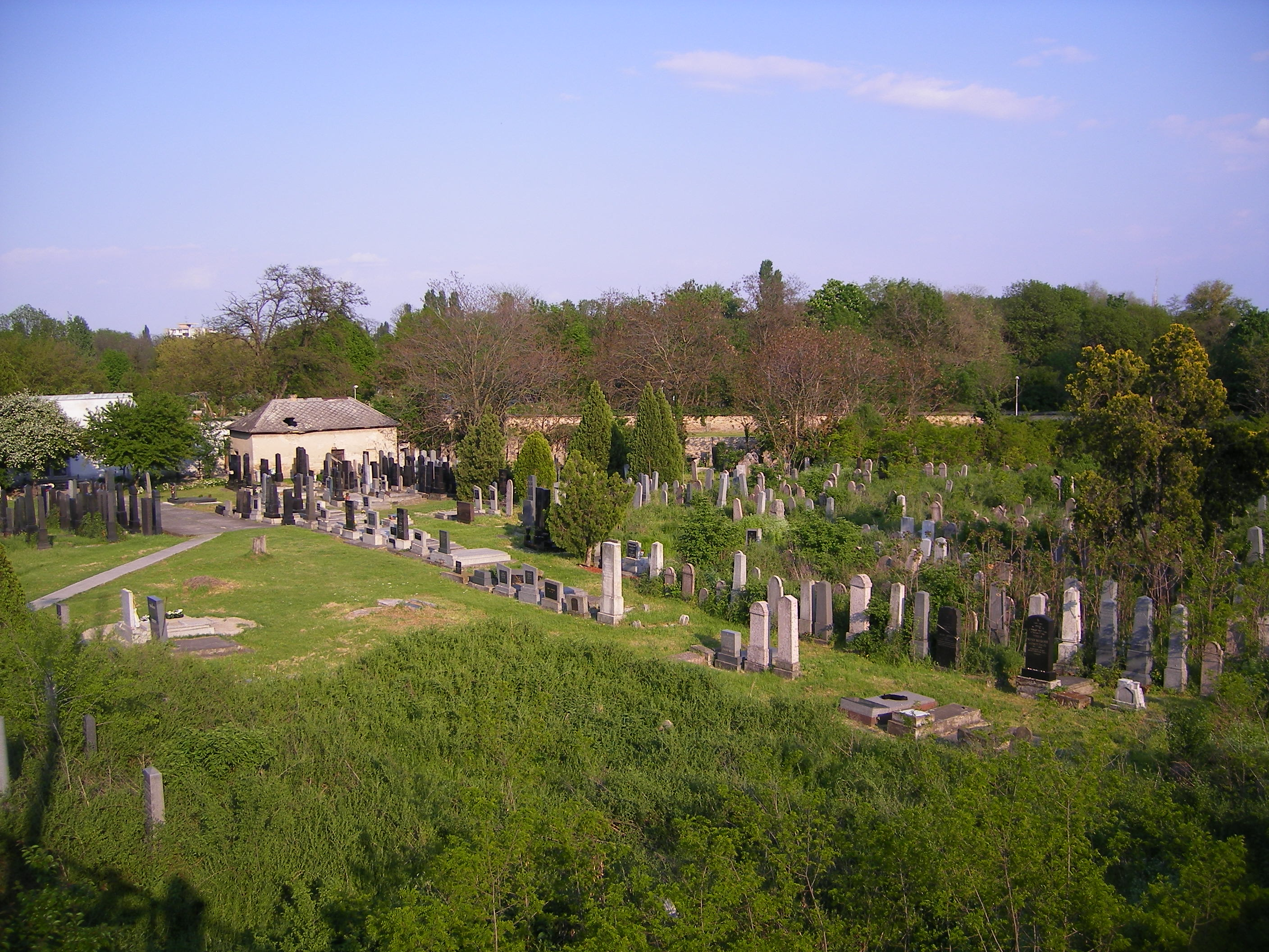 Komárno - Jewish Cemetery